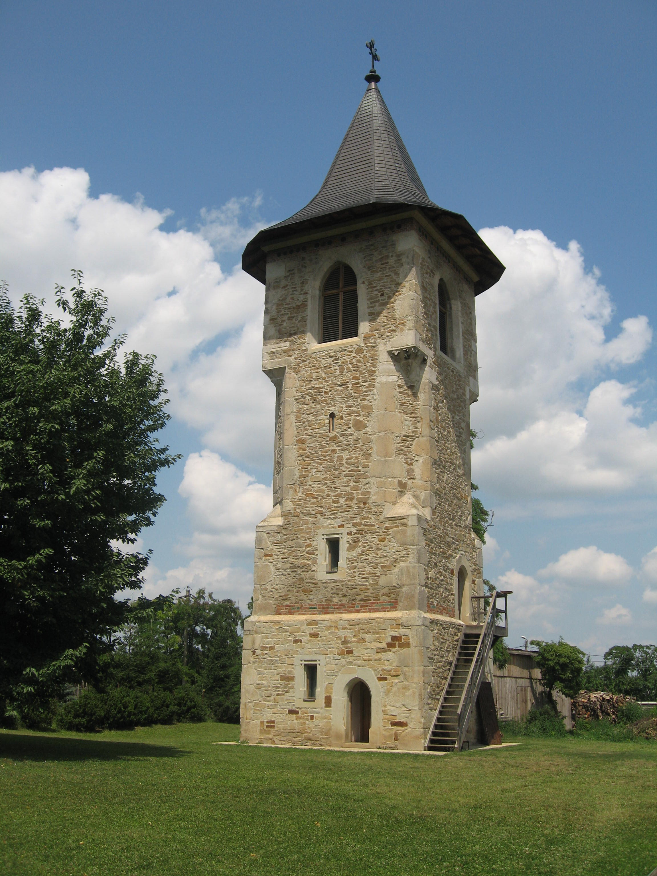 The bell tower of Monastery Popăuţi (Botoşani County, Romania), built in XV century by Stephen the Great 02